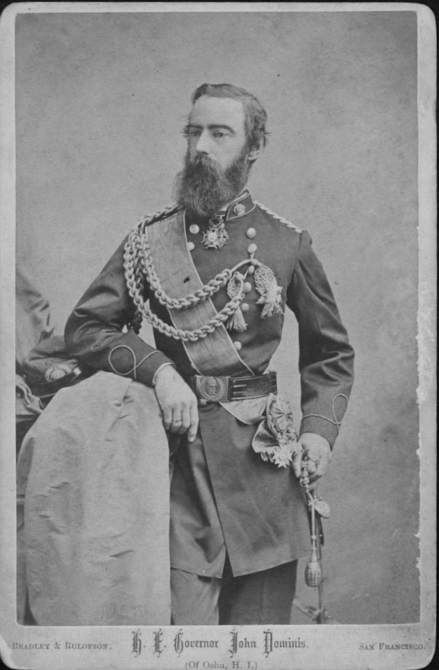 John Owen Dominis.